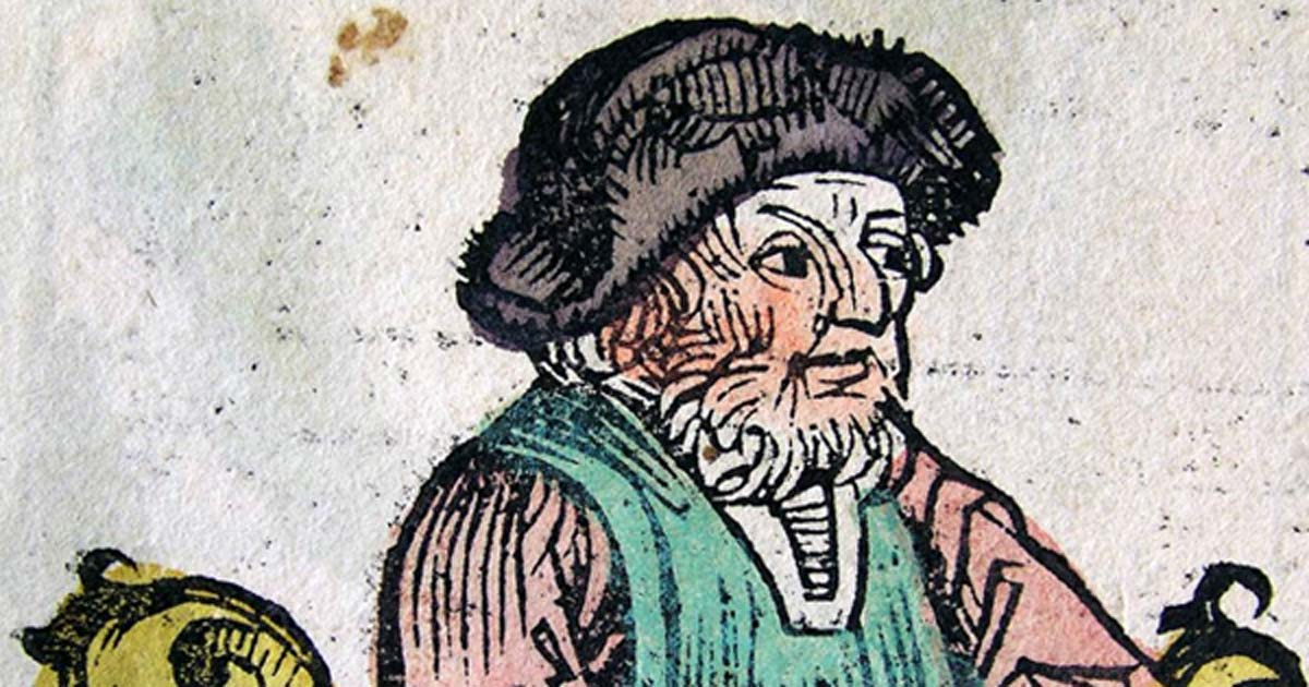 An artist's rendition of Anaximenes of Miletus